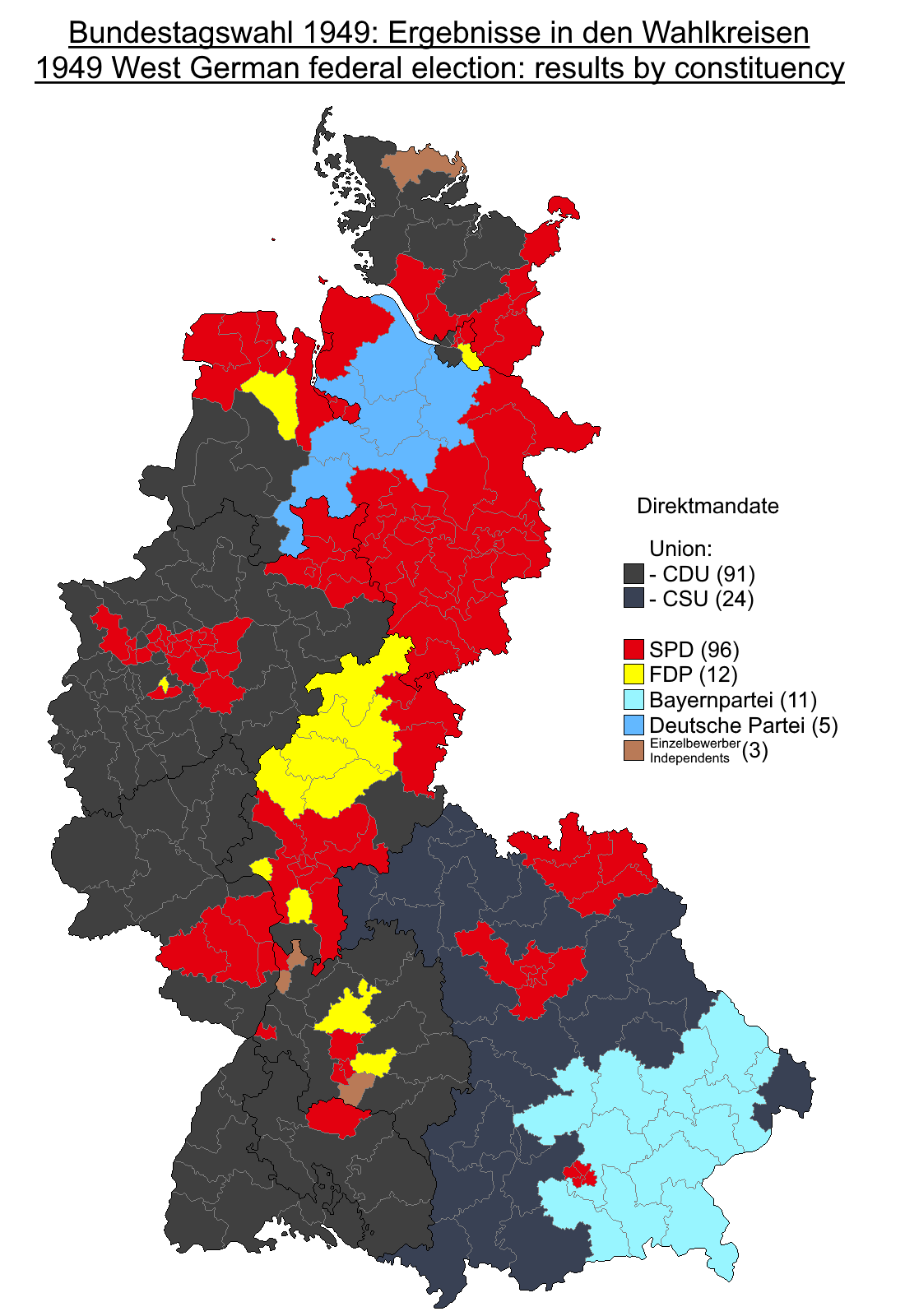 Results of the (West) German federal elections of 1949, showing direct seats won by party